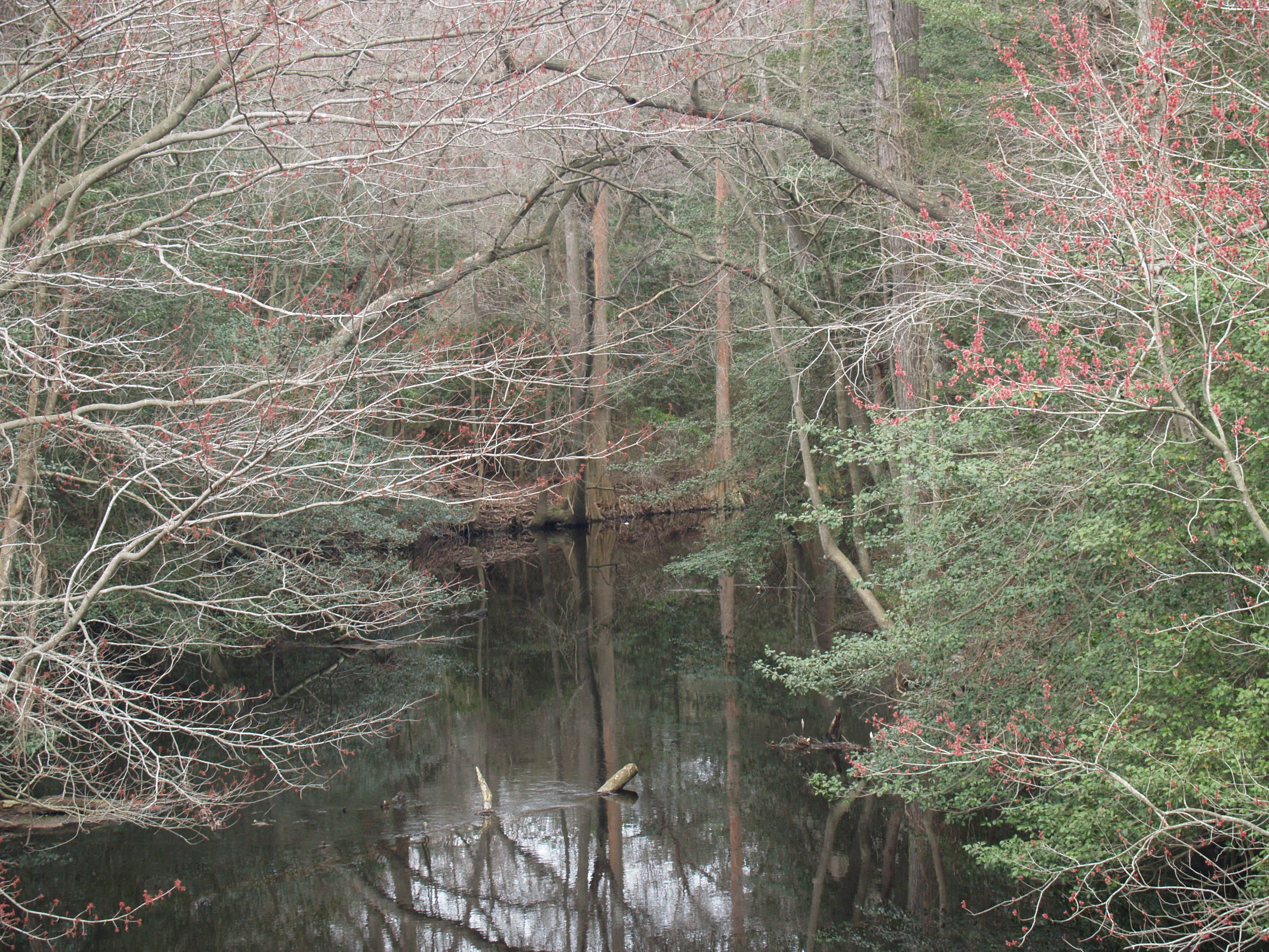 James Branch looking downstream from the DE Route 24 crossing in Sussex County, Delaware. Image was taken in 2008.